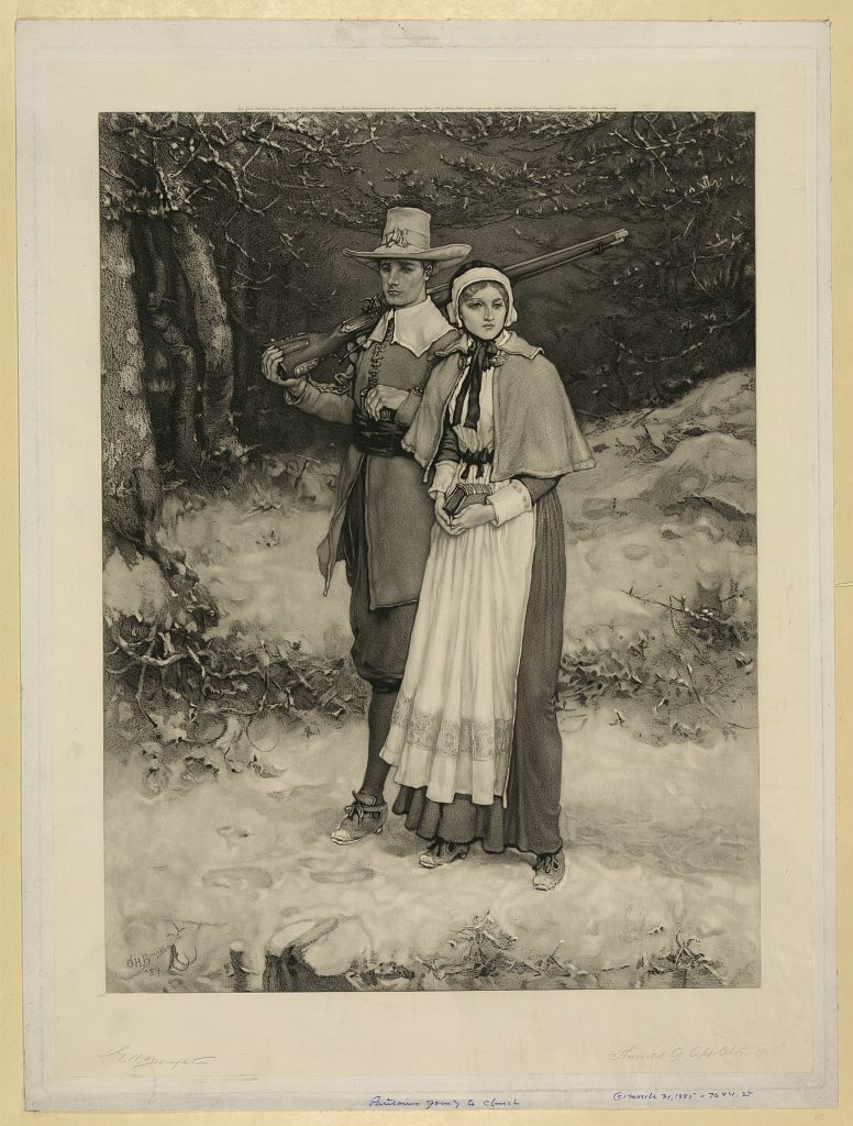 "Puritans Going to Church," representing John and Priscilla Alden, by George H. Boughton, from Library of Congress LC-DIG-pga-00038